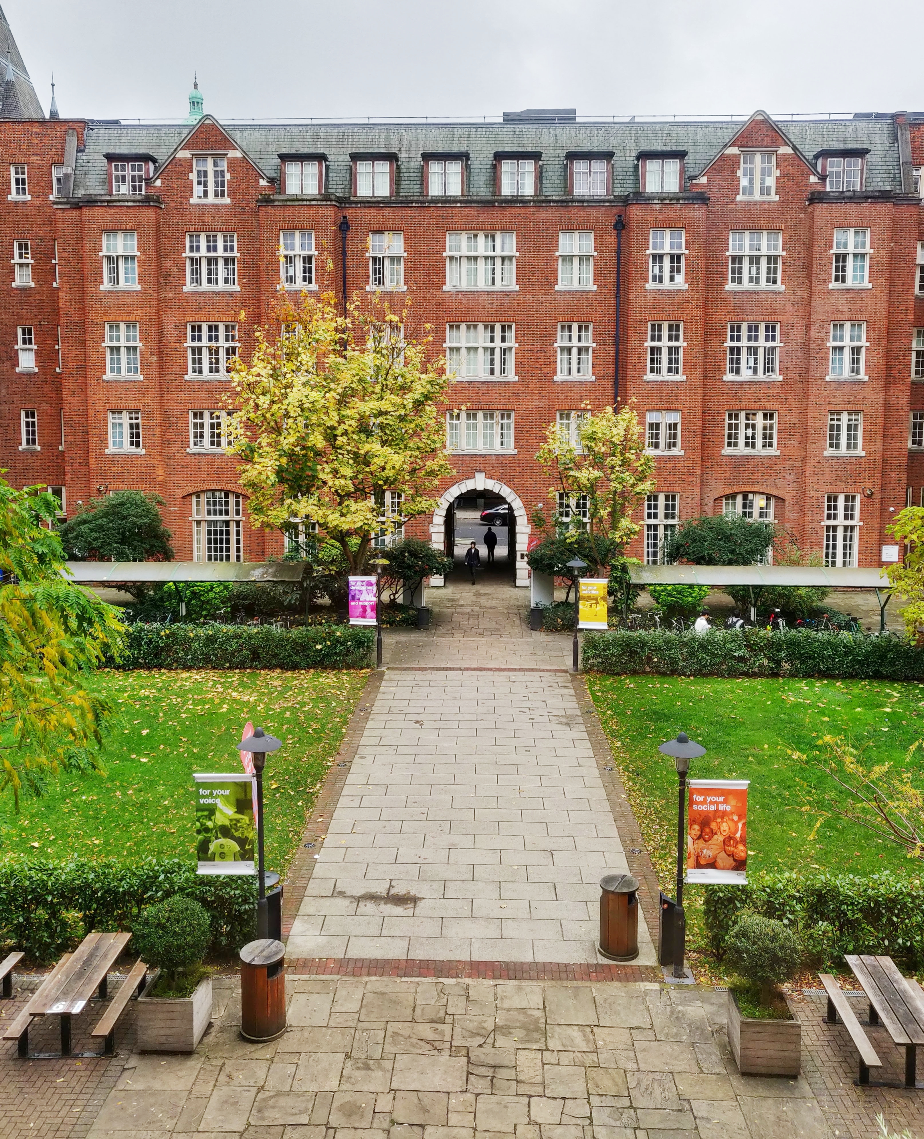 Beit Hall is an Imperial College hall of residence on Beit Quadrangle, a courtyard part of the South Kensington Campus